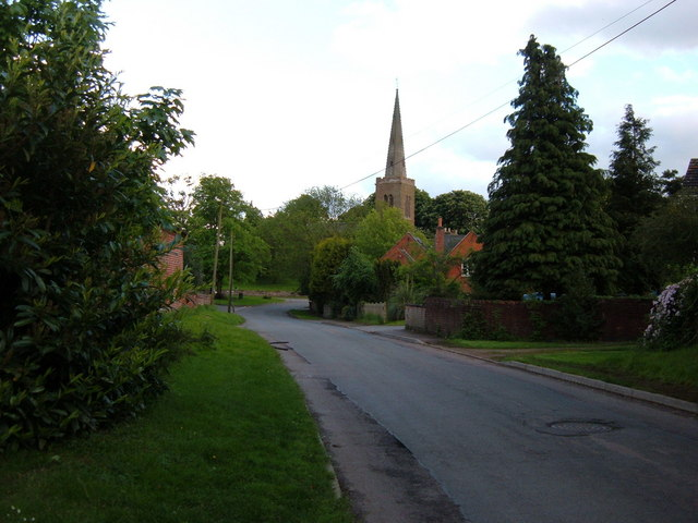 Naseby village. The road into Naseby from Welford.